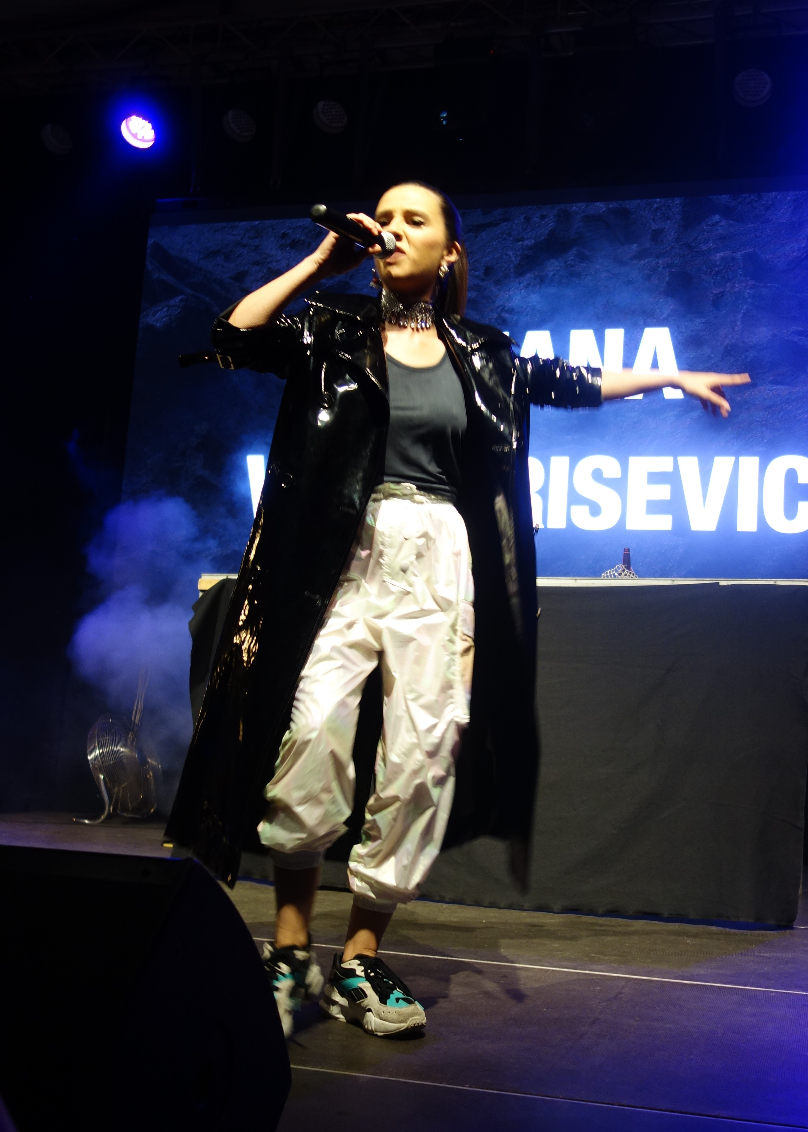 Belgrade’s eighth Pride Parade took place on September 15th, 2019. Thousands take part in Belgrade Pride marching under the slogan ‘’I’m not giving up’’. Српски (ћирилица): Осма београдска парада поноса на којој је учествовало више хиљада људи одржана је 15. септембра под слоганом "Не одричем се".